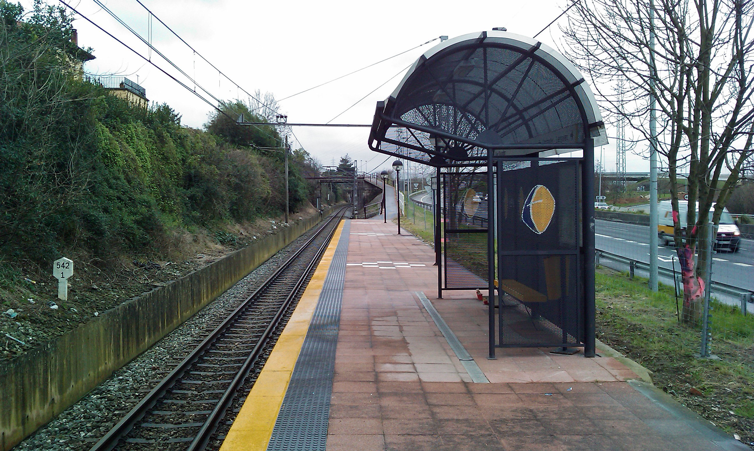 Apeadero de San Salvador (Medio Cudeyo) - Cantabria (España)